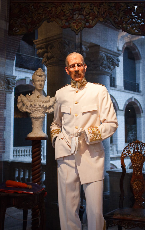 Governor-General Bonifacius ‘Bonne' de Jonge of the Dutch Indies, was opposed to any form of nationalism by the Indonesians.